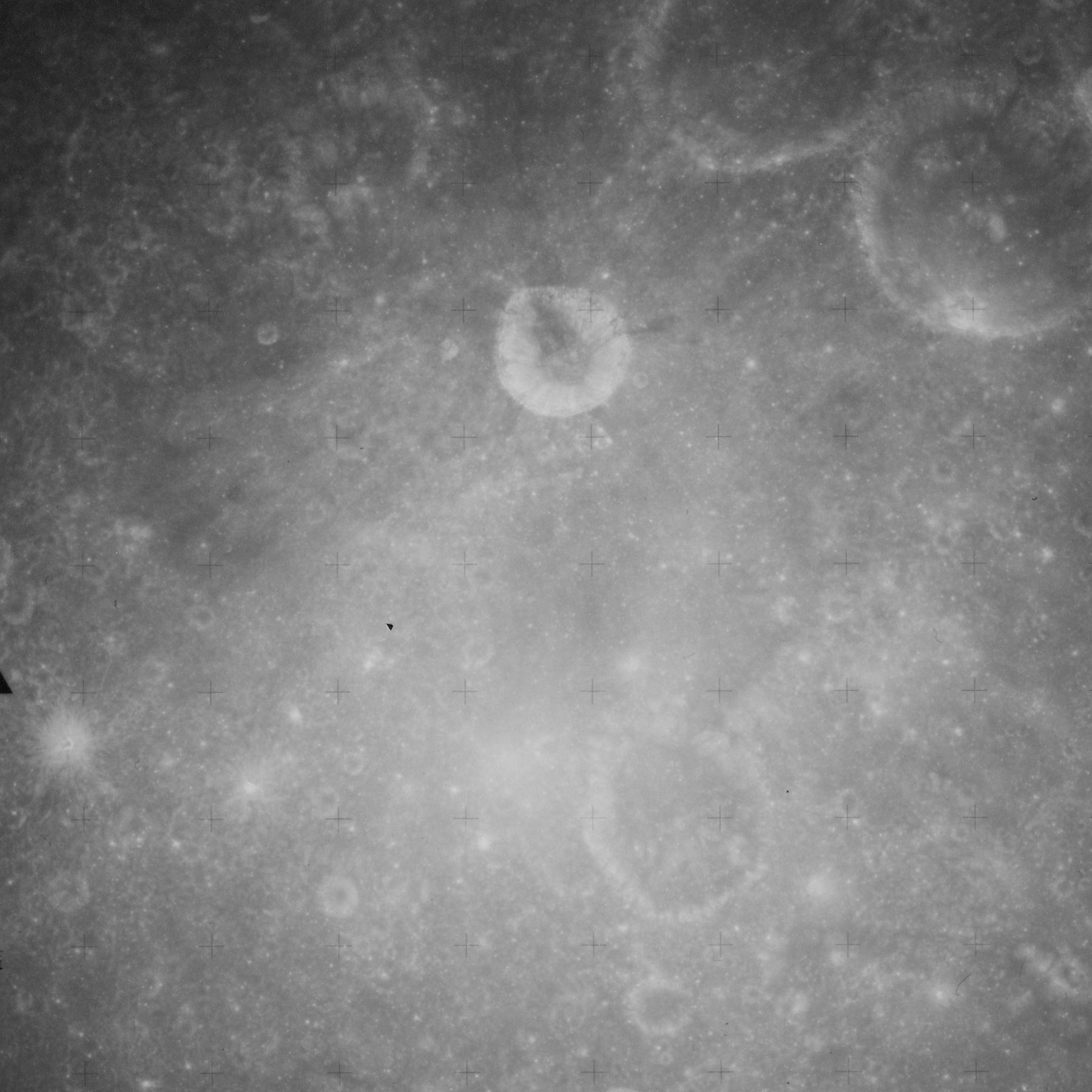 Gilbert crater, on the moon. Note that at this high sun angle, the eroded rim of the crater is barely distinguishable. Geissler is the small but prominent crater above center. Sun elevation 77 deg., spacecraft altitude 122 km.